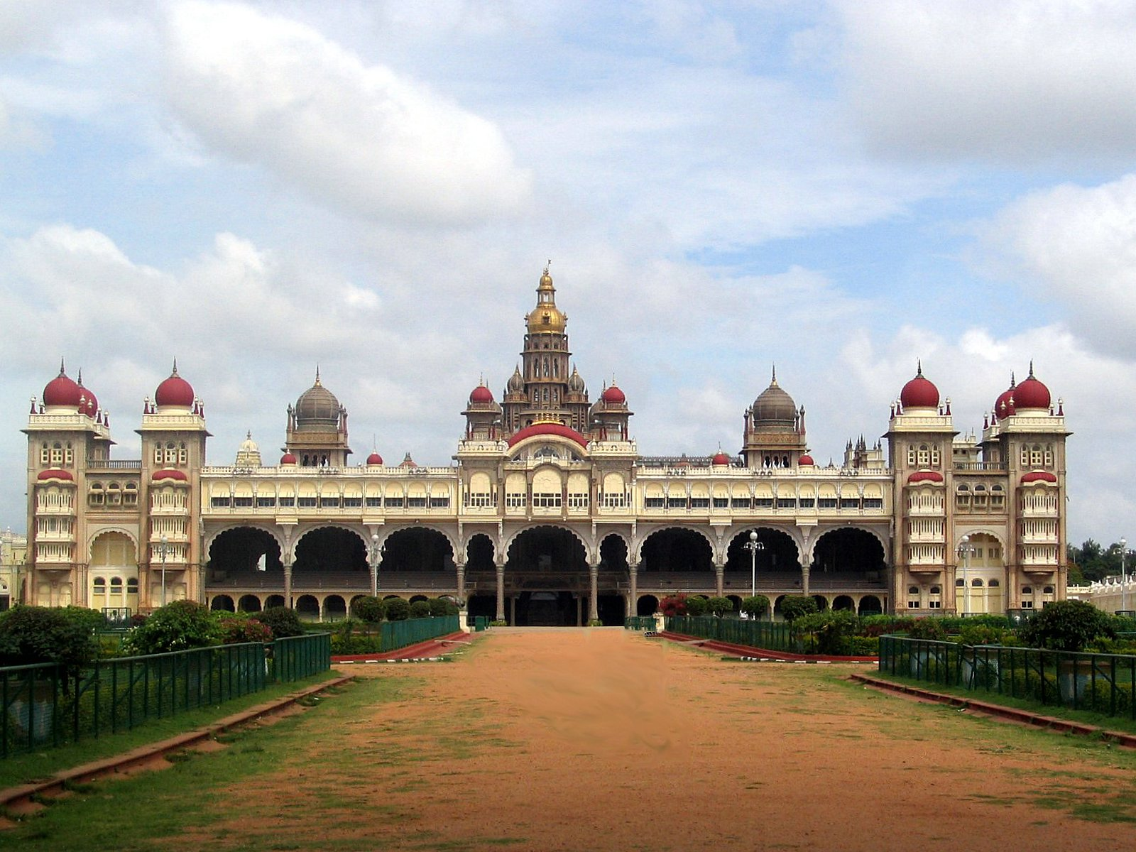 Front view of Mysore Palace, India (also known as Ambavilas Palace)